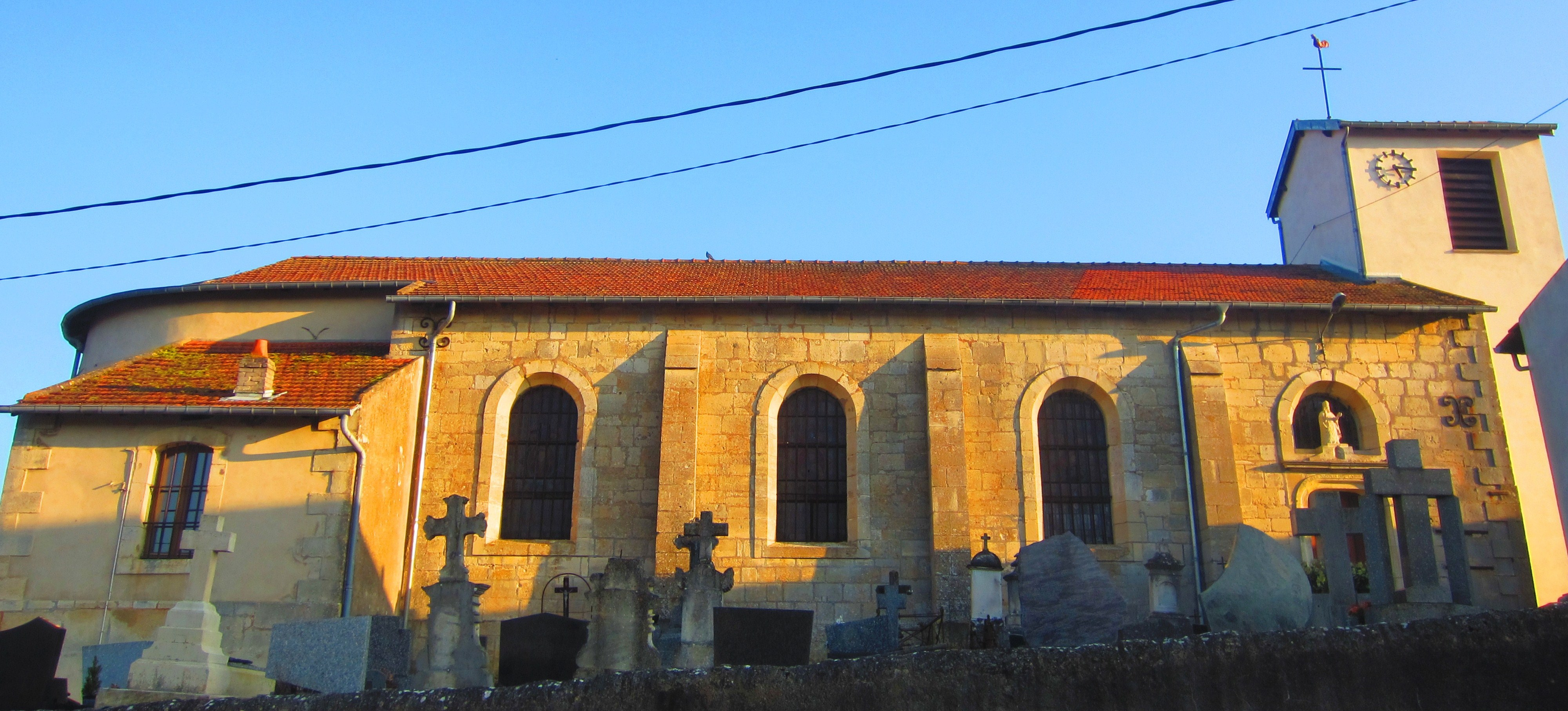 Villers Preny church